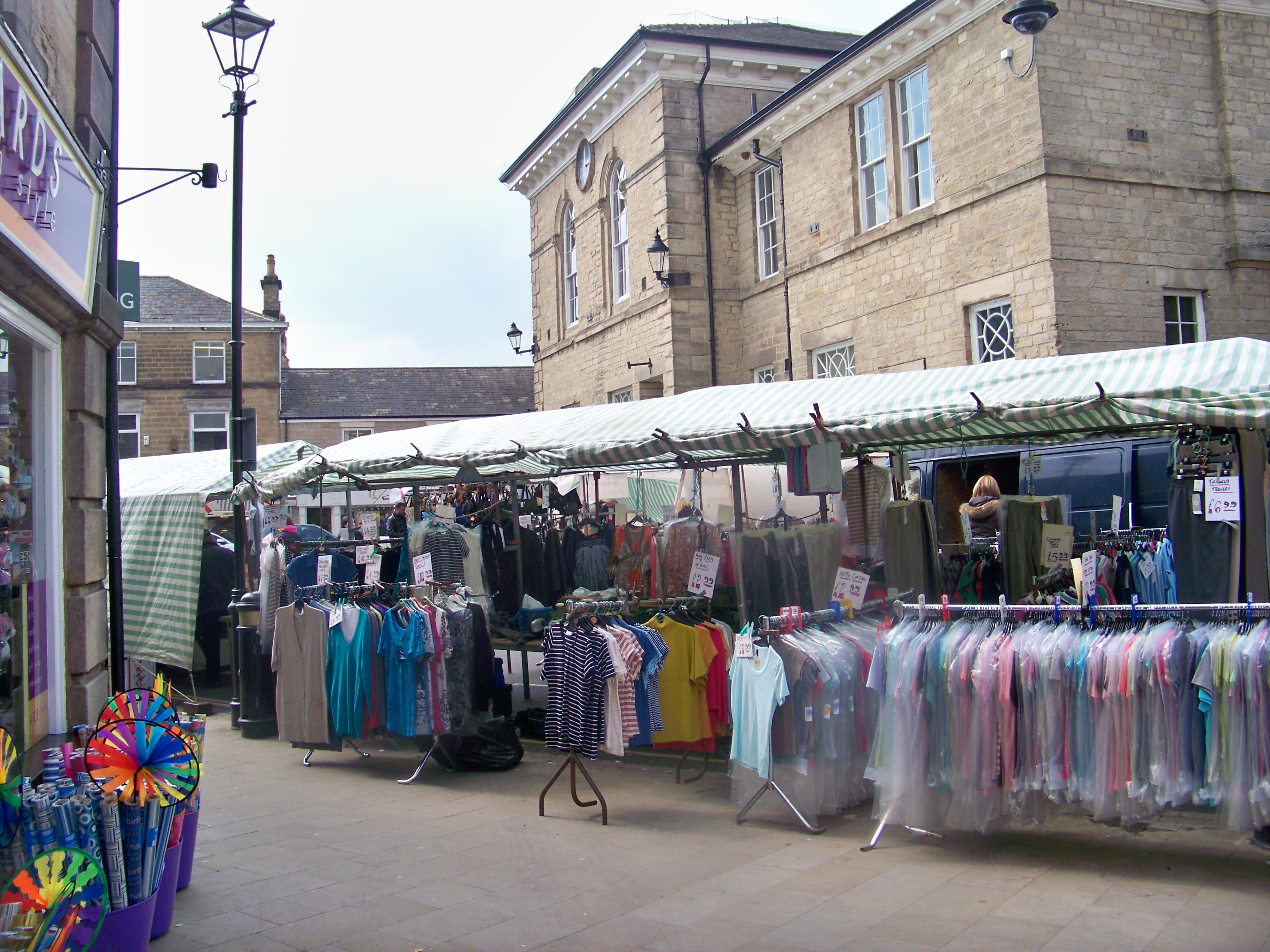 Wetherby Market on the afternoon of Thursday the 13th of May 2010.